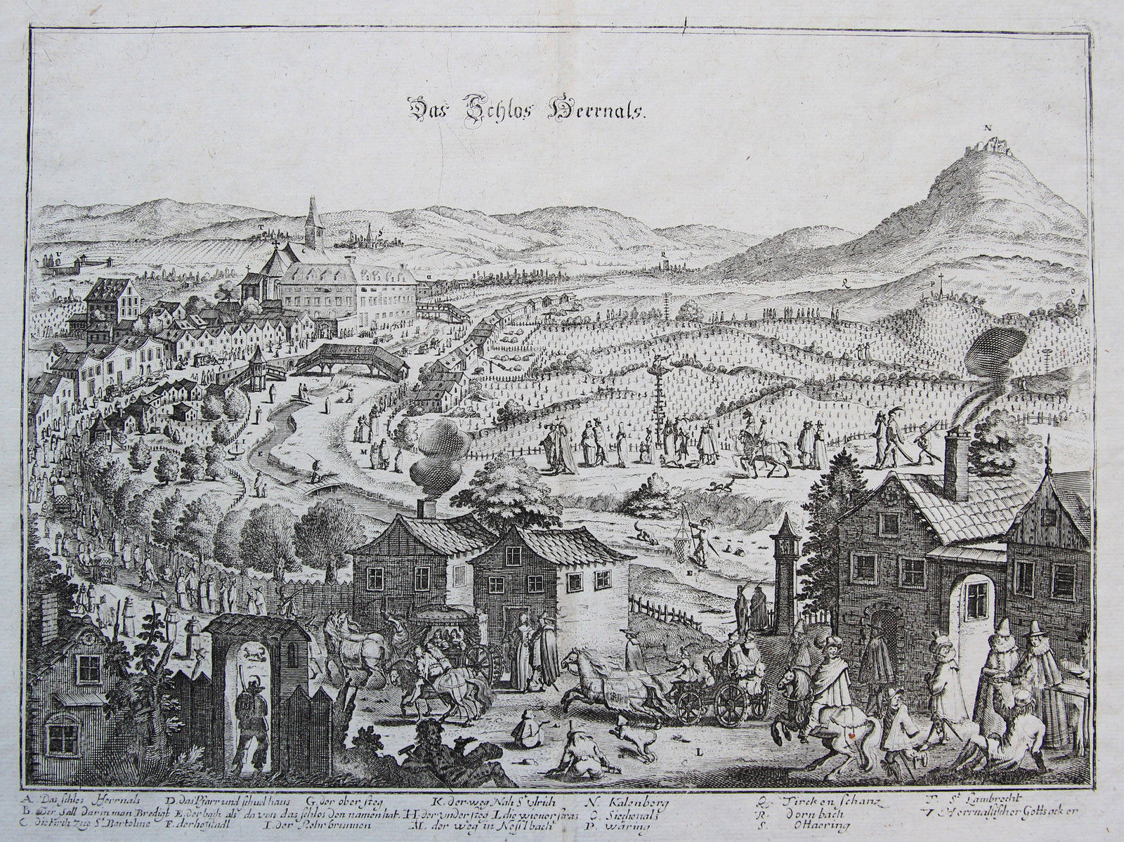 Auslauf to Schloss Hernals, outside Vienna. Worshipers are depicted traveling from the city to services at the castle. Engraving circa 1620 by Matthias Merian the Elder, in Topographia provinciarium austriacarum, Austriæ Stÿriæ, Carinthiæ, Carniolæ, Tyrolis, etc. (Frankfurt am Main, 1659). Courtesy of the Library of Congress.